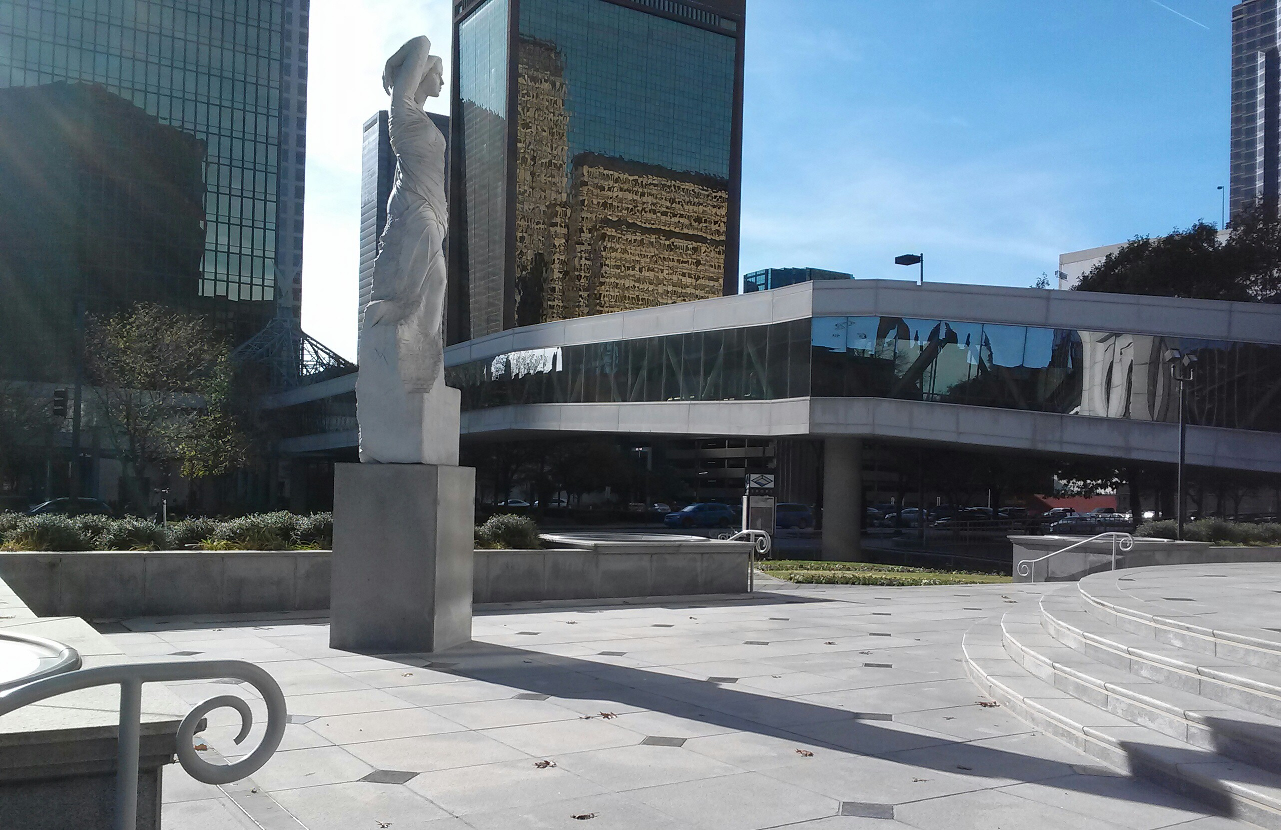 Statue, Downtown Dallas